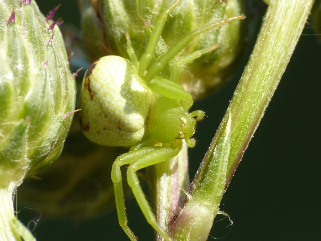 Misumena Vatia